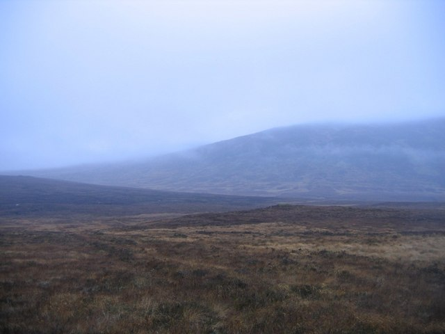 Overcast day in Craiganour deer forest The rough hillside, here, drops to a very wide and boggy col, while across the glen the steep slopes of the corbett, Beinn Mholach, rise into the cloud.